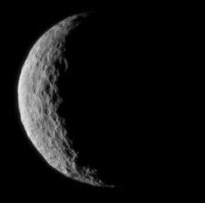 A crescent Ceres as photographed by NASA's Dawn spacecraft on 1 March 2015.